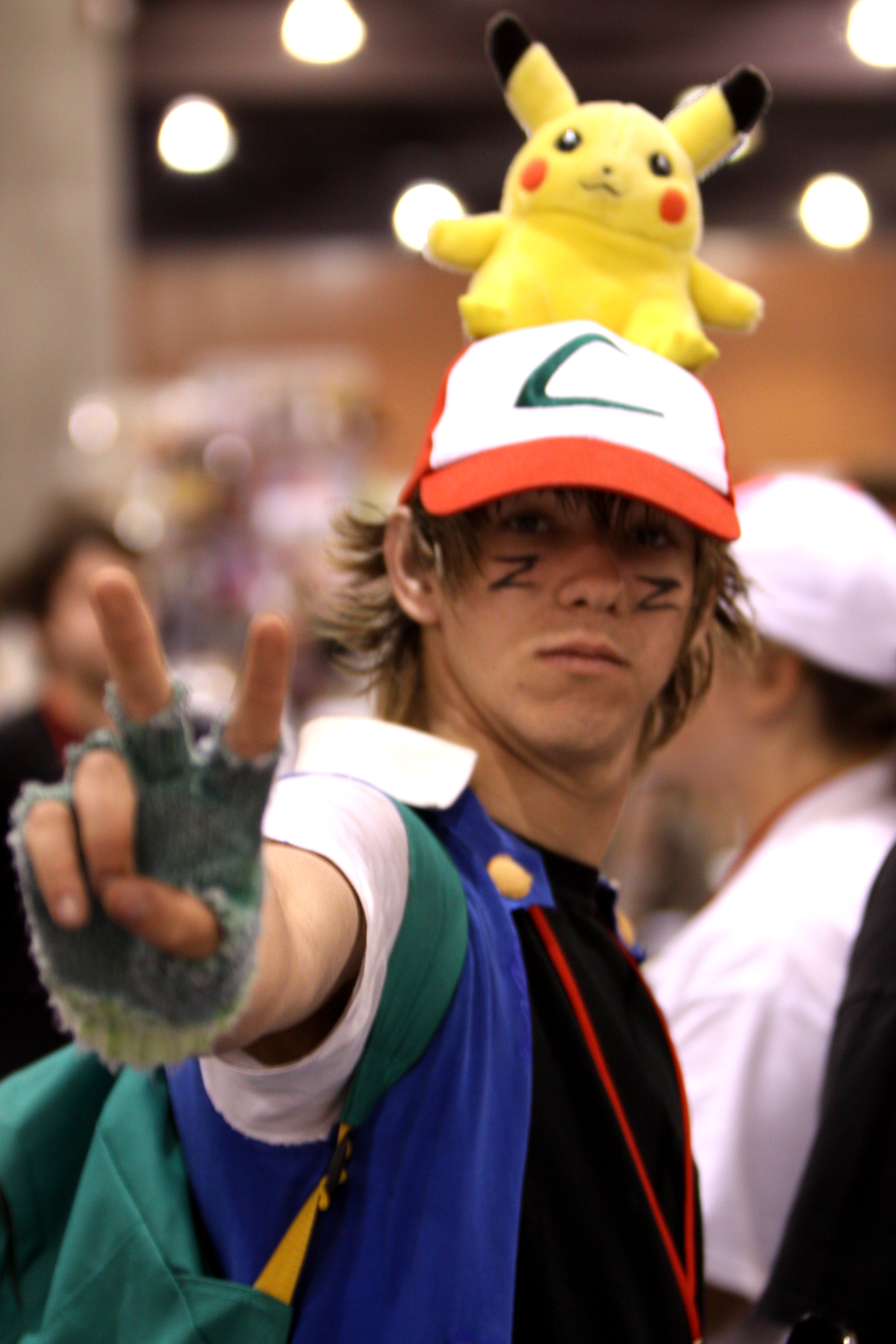 Ash Ketchum of Pokemon at the Phoenix Comicon in Phoenix, Arizona.